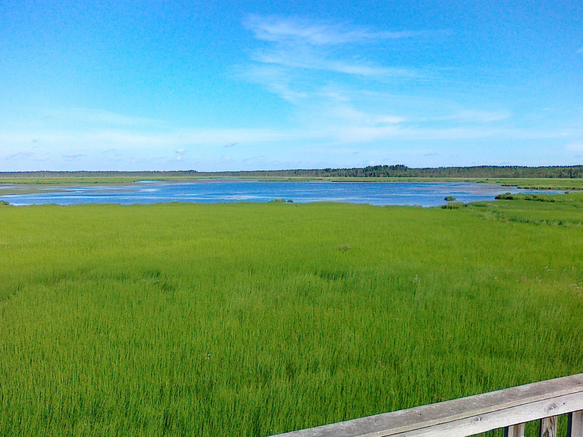 A view of the open water area at the middle of the lake Nurmesjärvi (Kärsämäki, Finland) from a bird-watching tower standing at the southern coast of the lake.